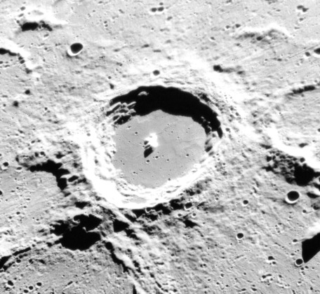 Oblique view of Jenner, on far side of the moon. From Apollo 15 mapping camera, after trans-Earth injection.